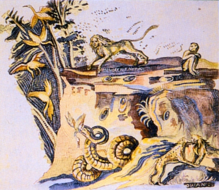 Detail of Nile mosaic from Palestrina (section 1). Copy of Cassiano dal Pozzo (around 1630). The Royal Collection 1994, Windsor castle.